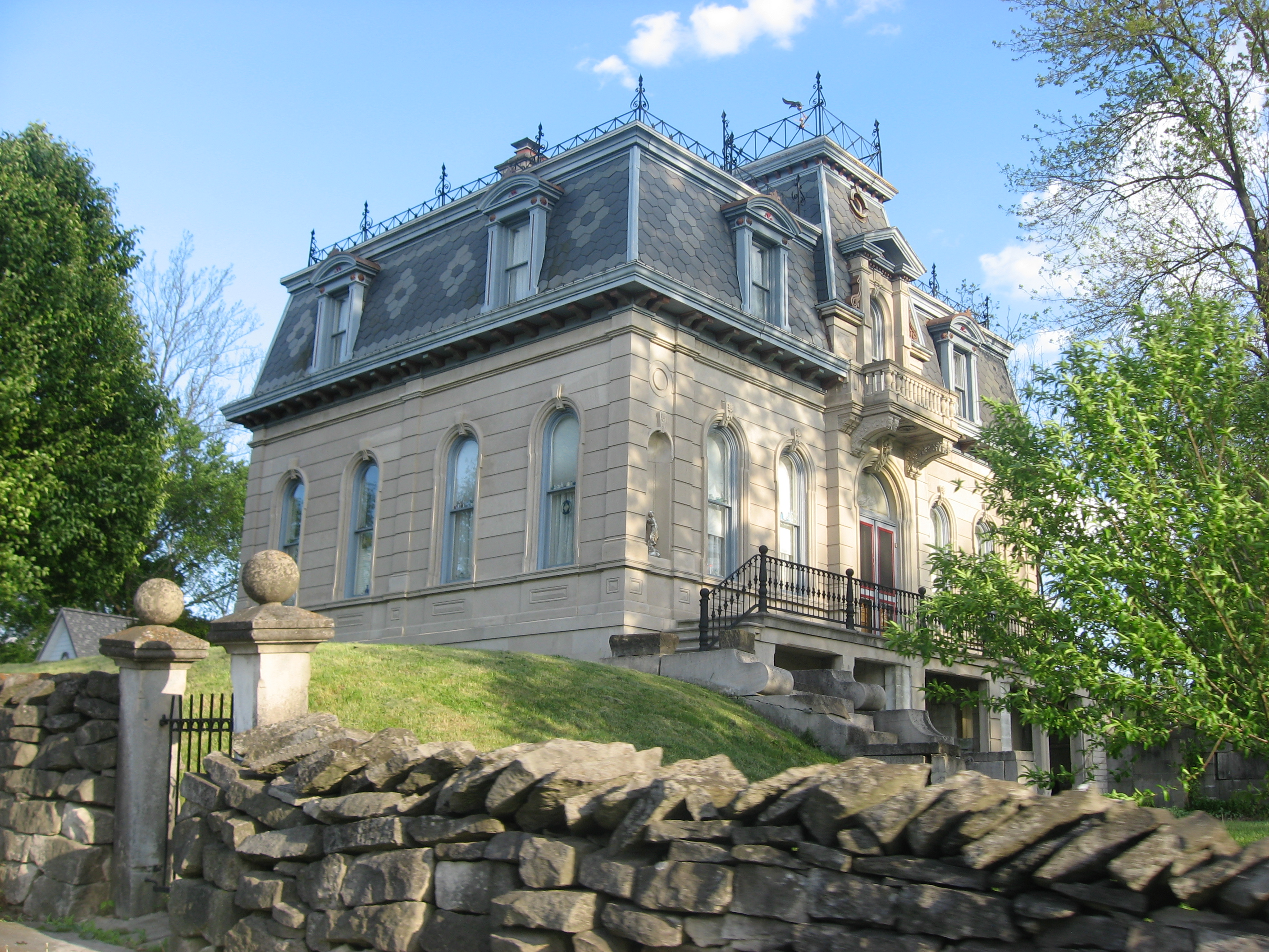 Front of the Matthews Mansion, located at 6445 W. Maple Grove Road north of Ellettsville in Richland Township, Monroe County, Indiana, United States. Built in 1874, it is part of the Matthews Stone Company Historic District, a historic district that is listed on the National Register of Historic Places.